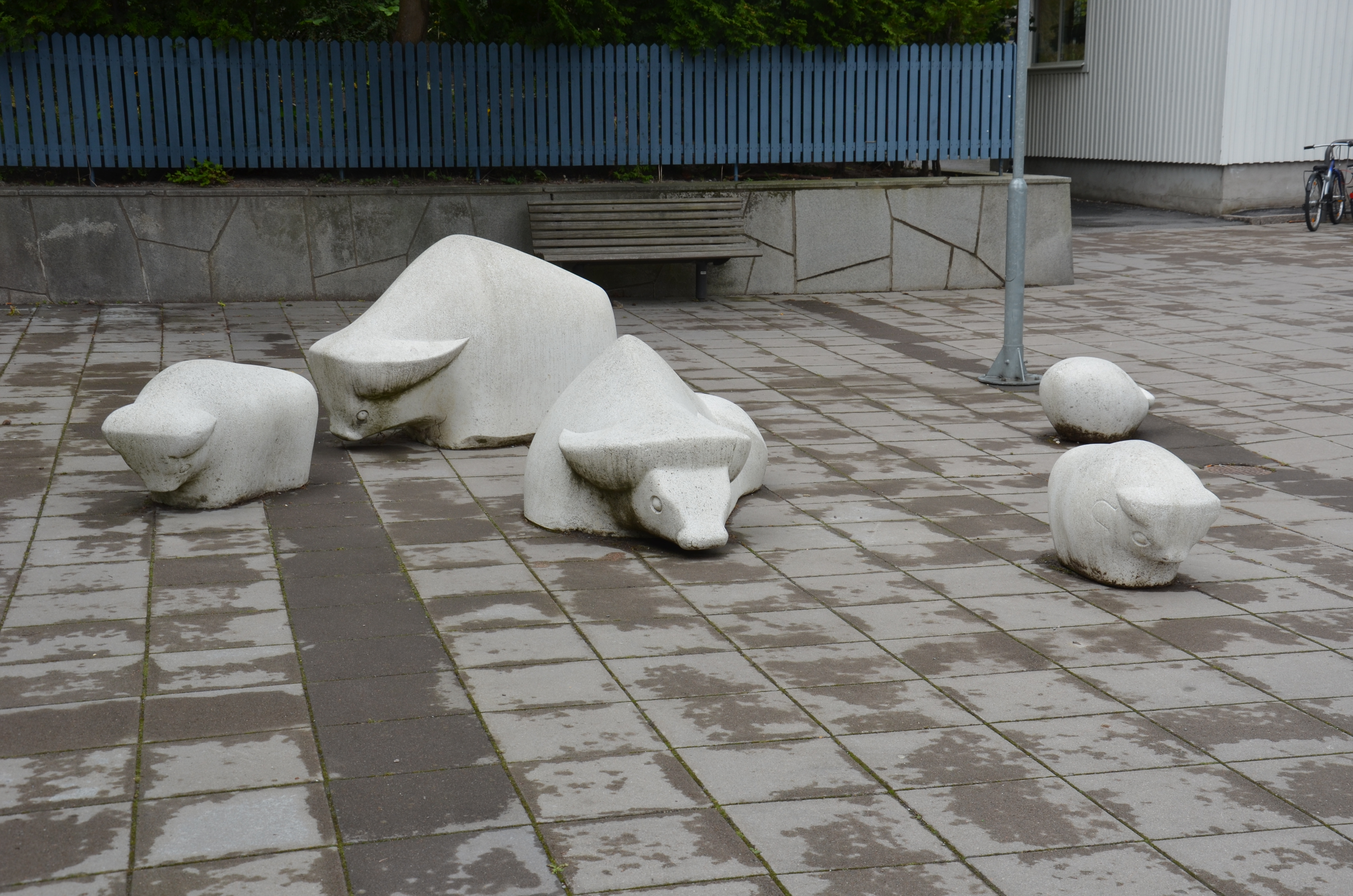 Ernst Heissenbergers Familjen, vit betong med marmorkross, 1975, torget vid Näsbyparks centrum